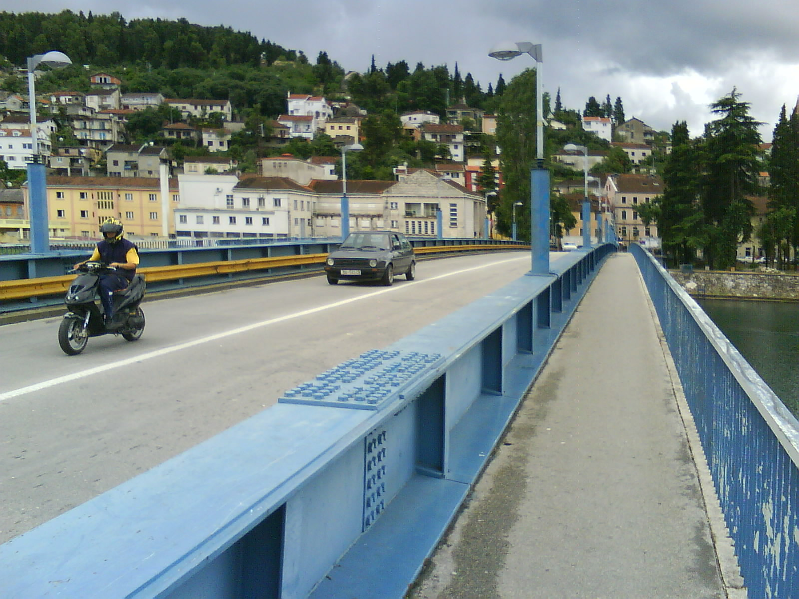 Port bridge over river Neretva in Metković